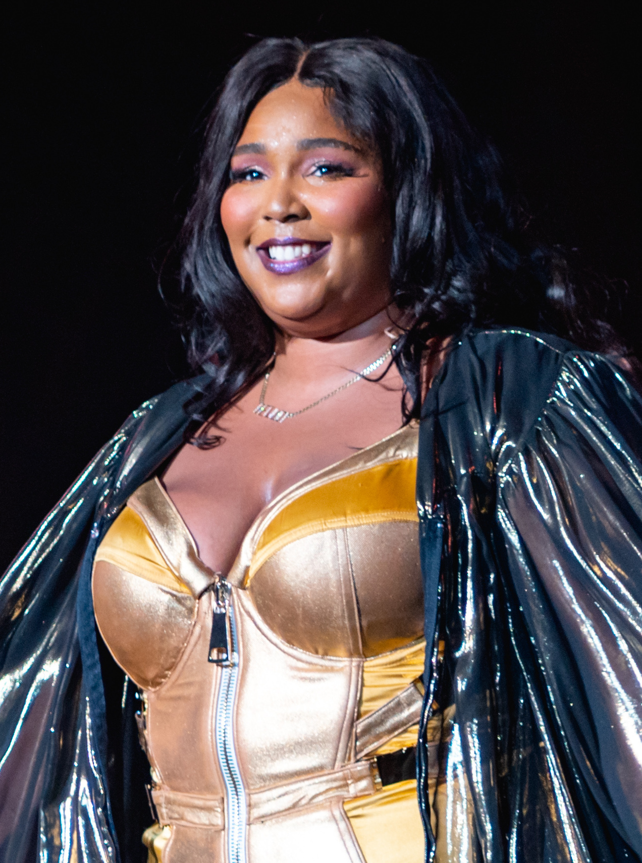 LizzoBrixt06Nov19-10